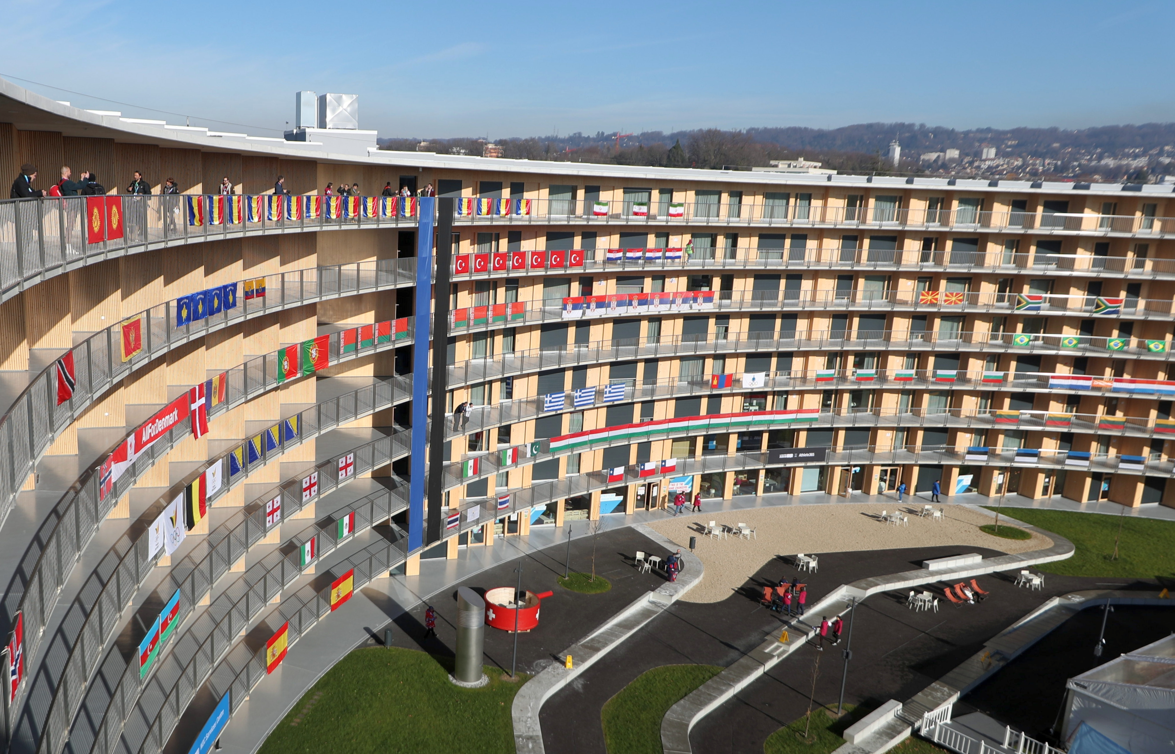 Media tour at the Youth Olympic Village in Lausanne